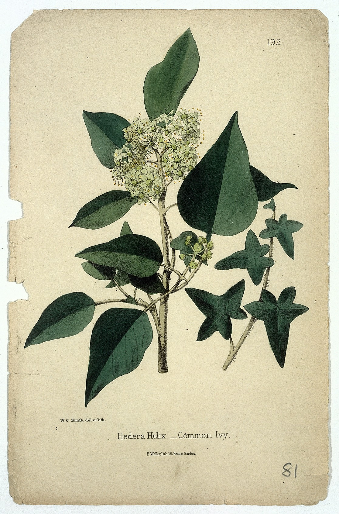 'Hedera Helix- Common Ivy' for F. Waller Iconographic Collections Keywords: W.G. Smith